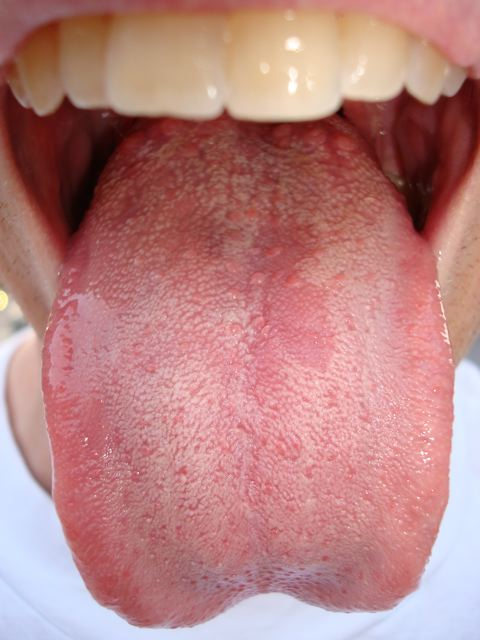 Asymmetric growth of tongue plaque due to fungal sinus infection.